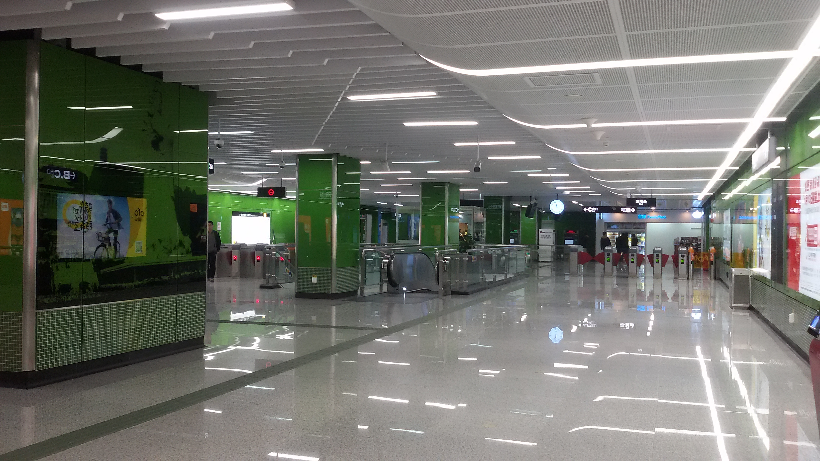 Station Concourse for Nanheng Station in Guangzhou Metro.